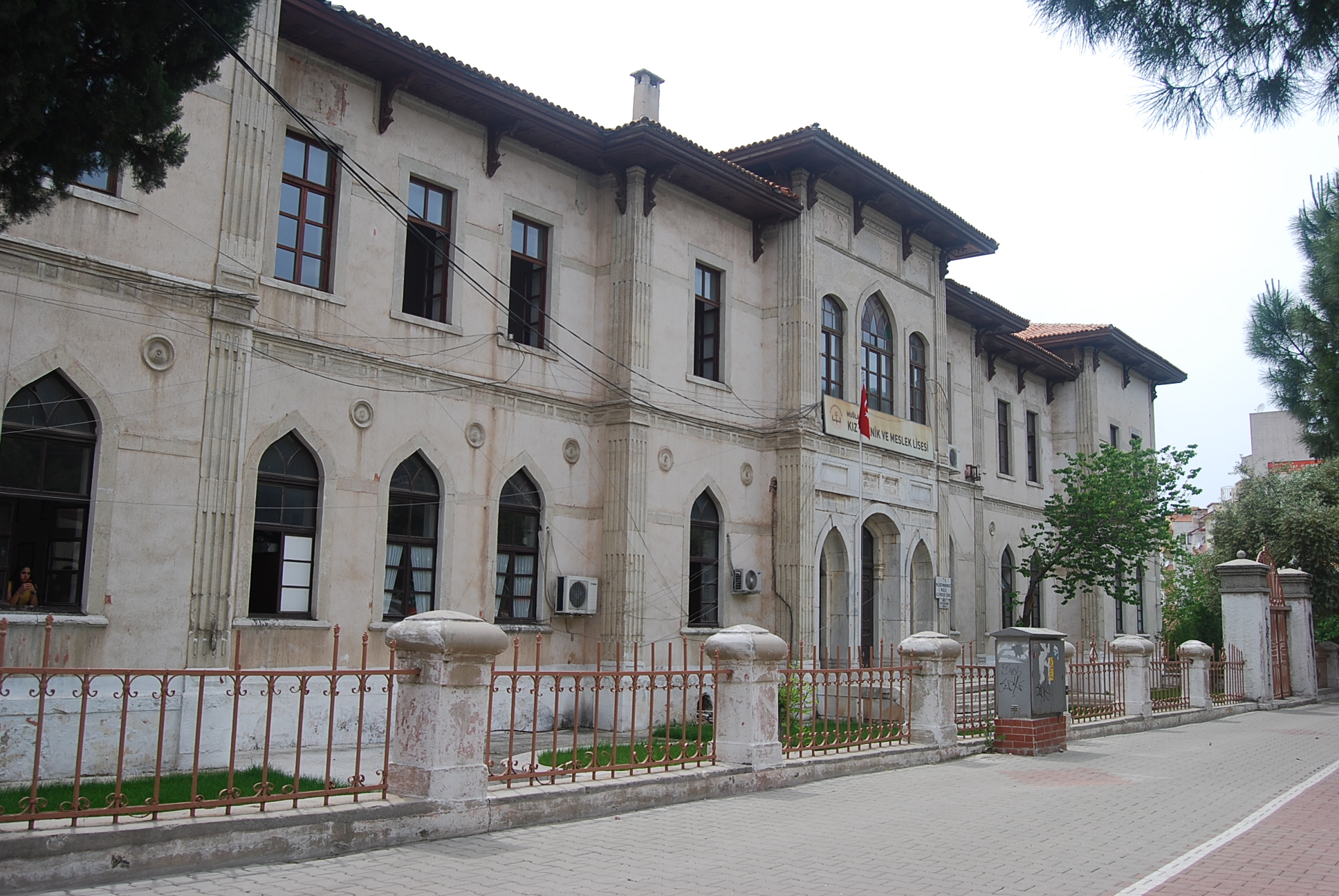 Old School Mugla Turkey